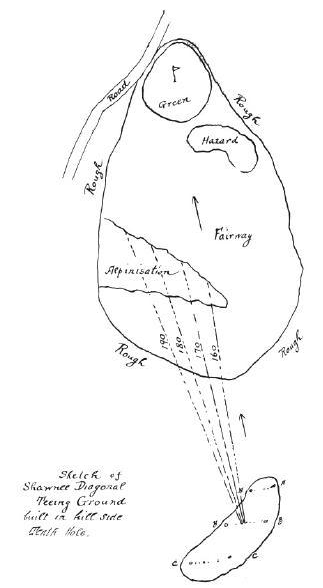 Sketch of 10th Hole, Shawnee-on-the-Delaware Golf Course by A. W. Tillinghast